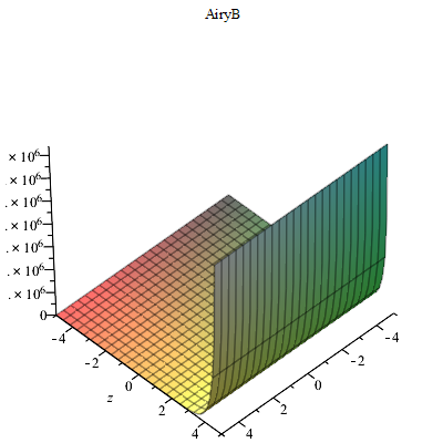 Generalized Airy B(n,z) function